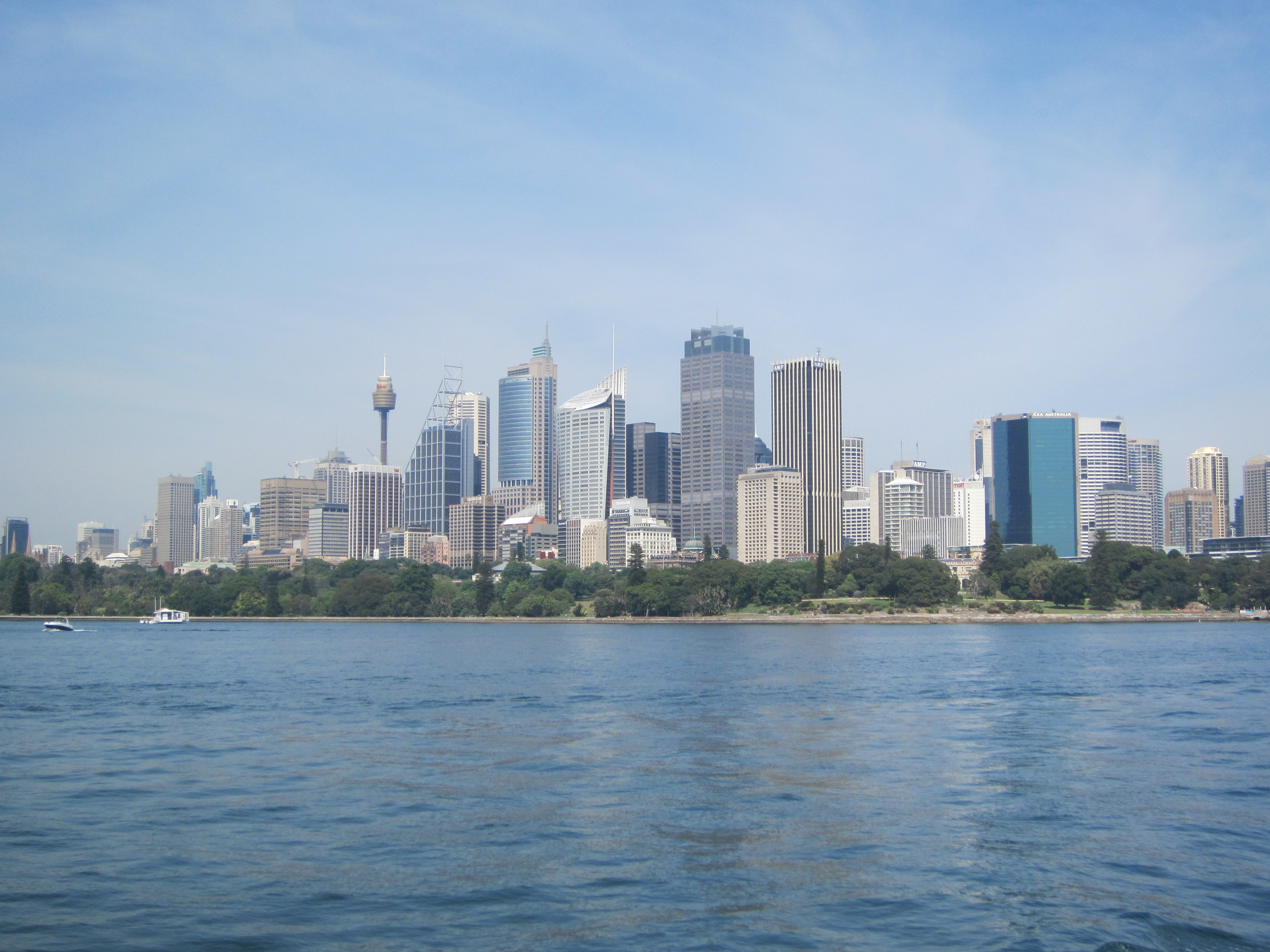 Skyline of Sydney from the Manly Ferry.